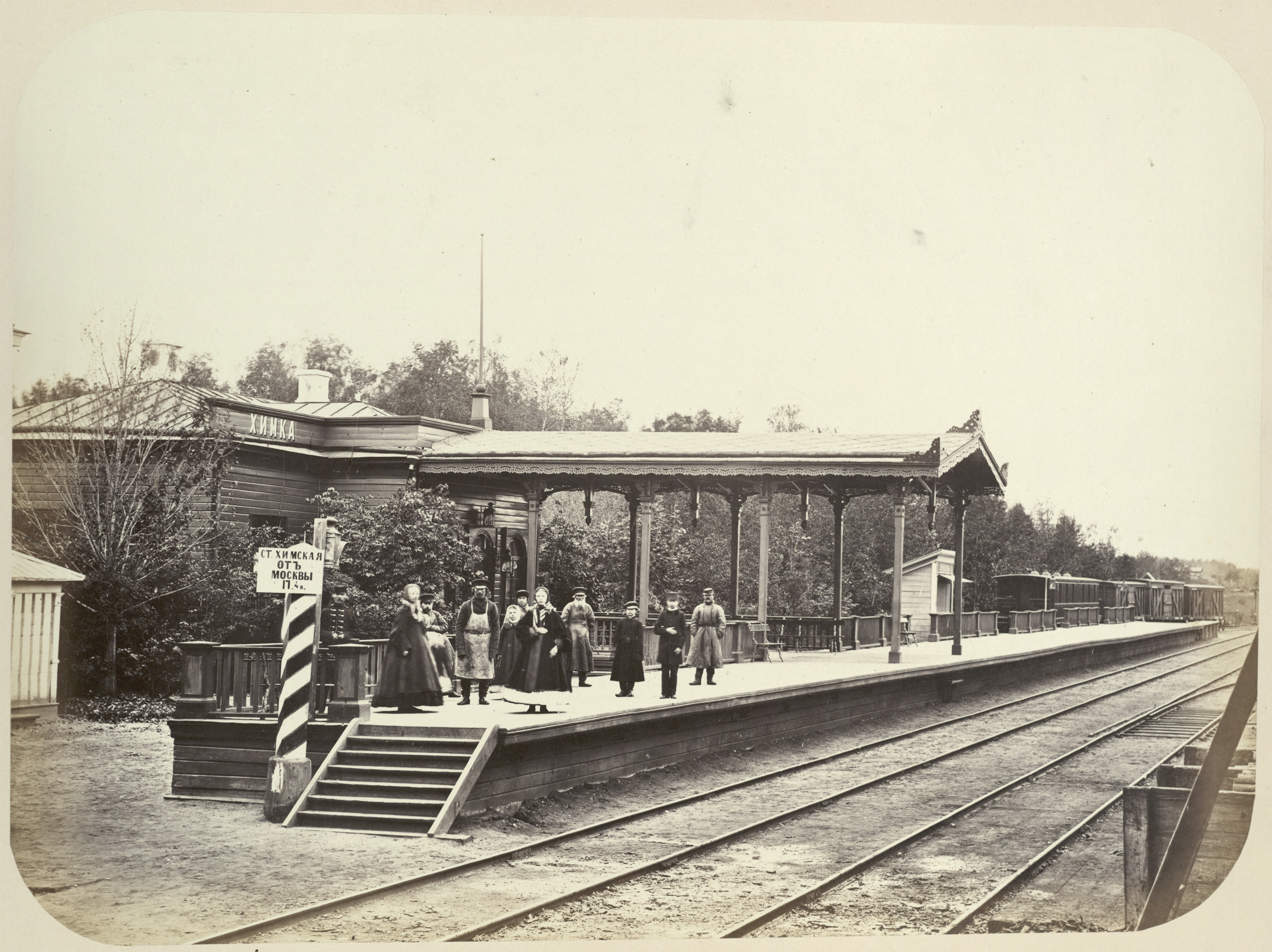 Railway_station_Khimka